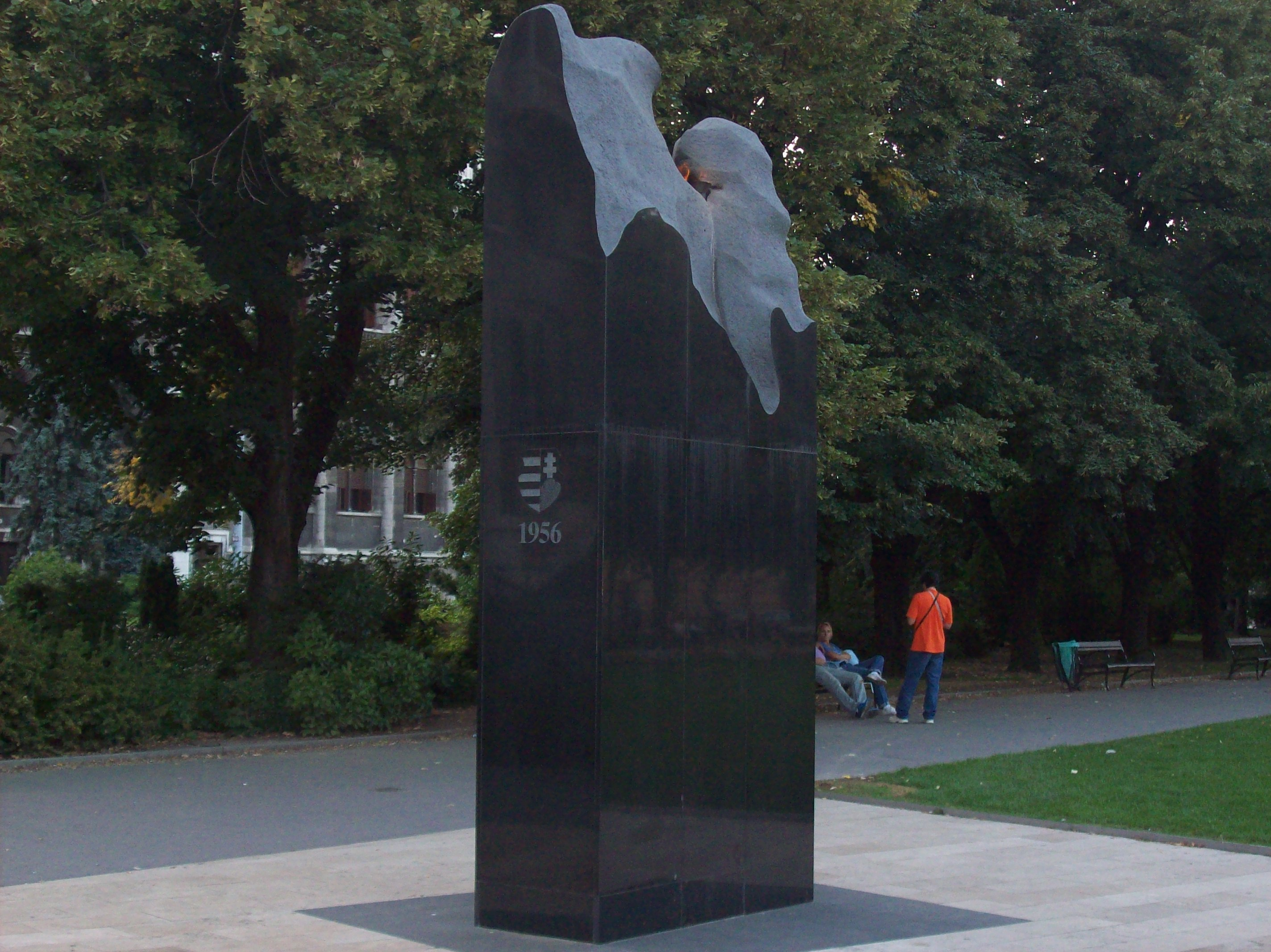 Budapest - Hungarian revolution of 1956 memorial nearby Parliament building